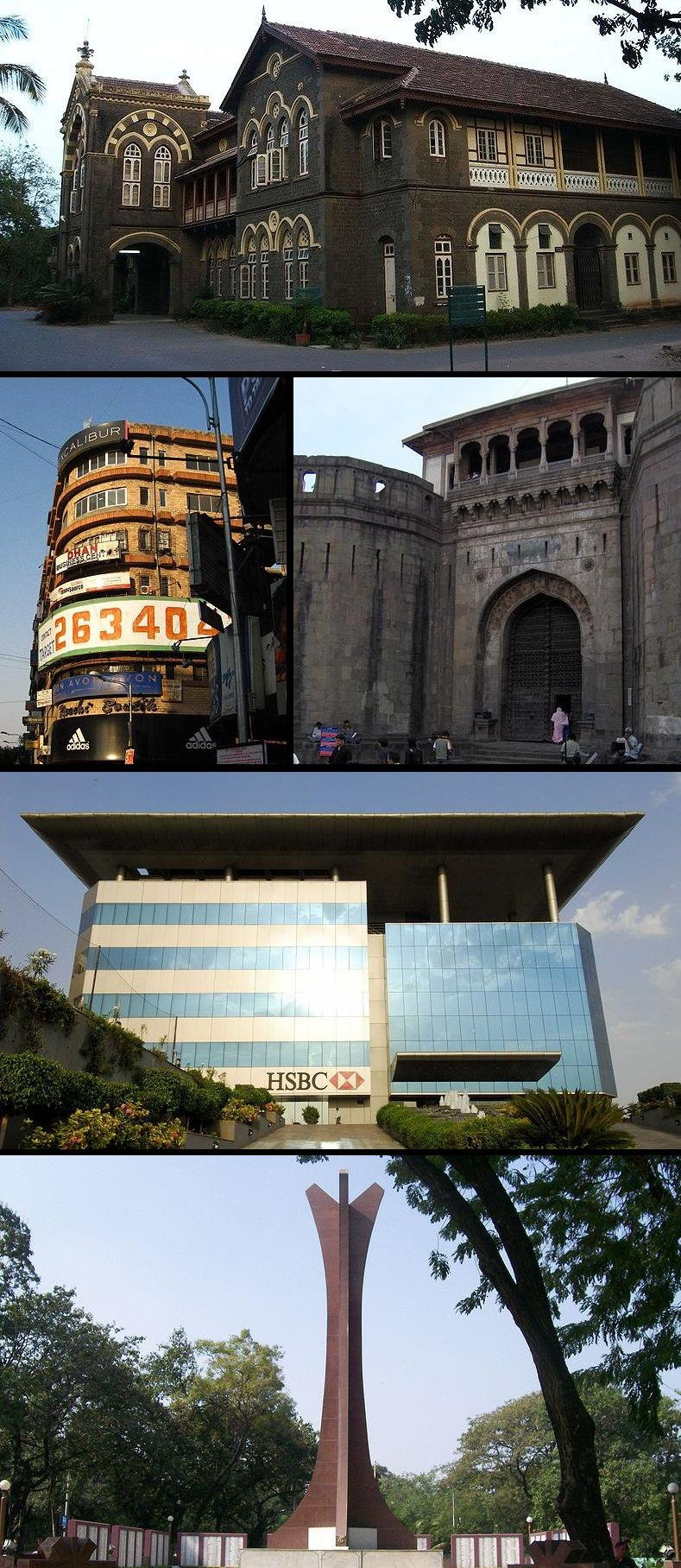 Source: Fergusson College File:MG Road, Pune.jpg Delhi Gate at the Shaniwar Wada File:HSBC GLT PUNE.jpg National War Memorial Southern Command